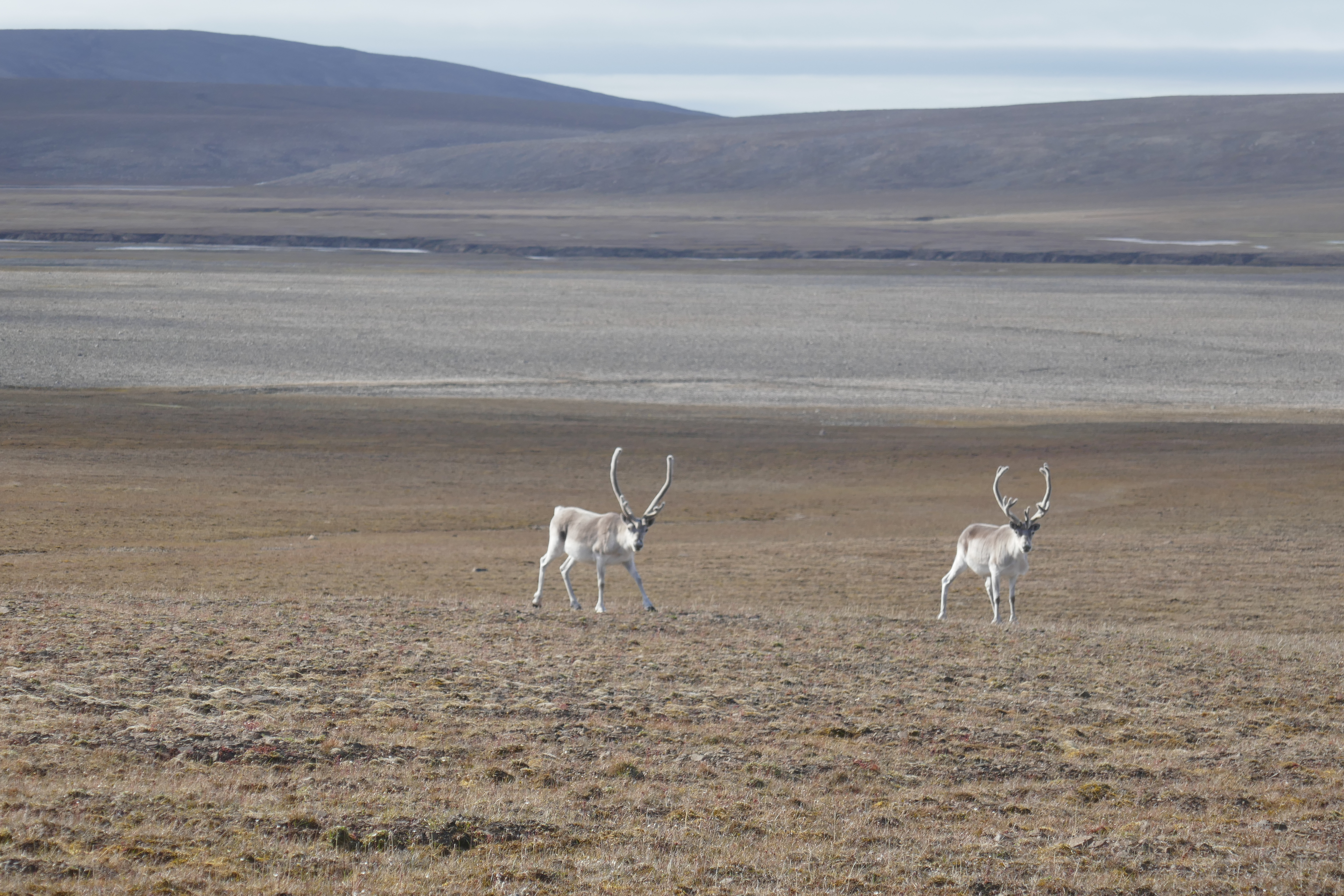 Qausuittuq National Park, Bathurst Island, Nunavut, Canada - July 2016